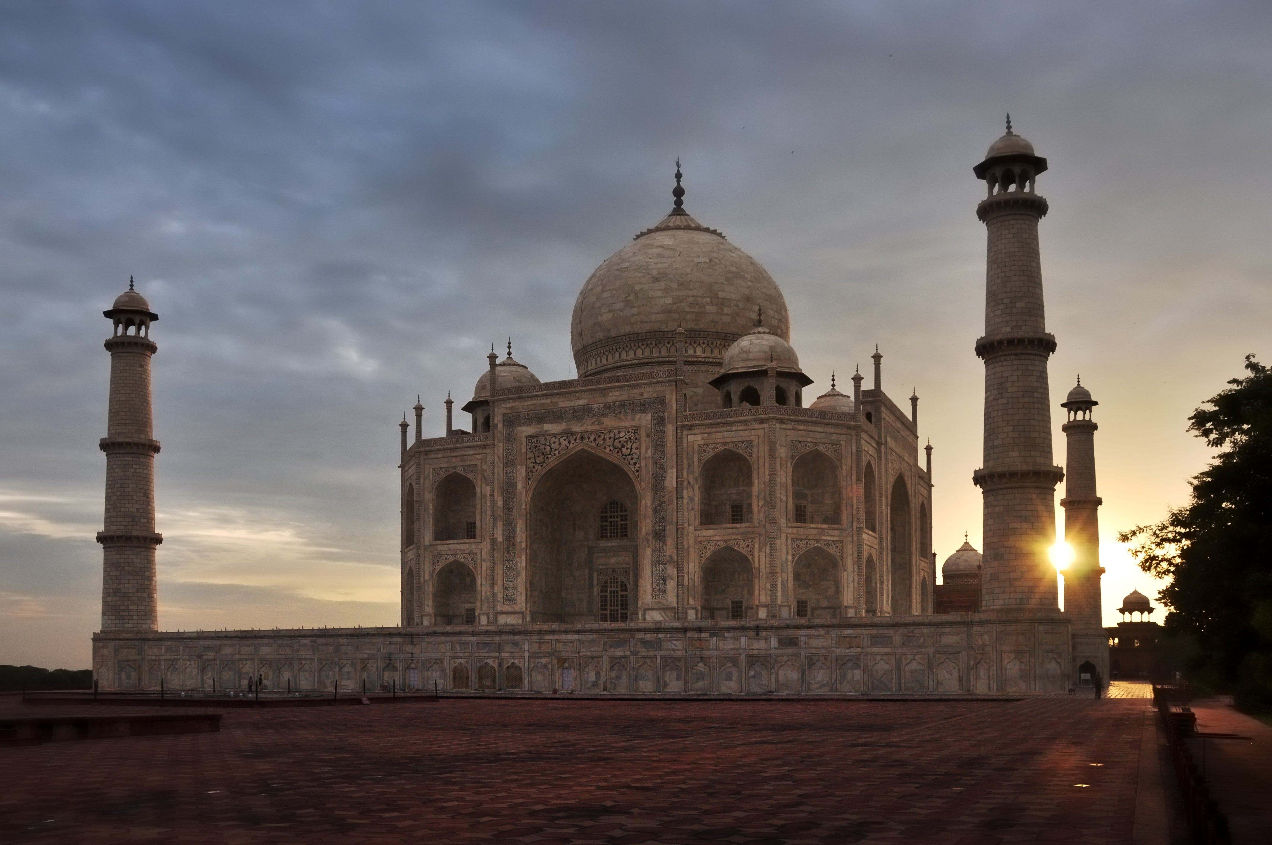 The Tomb of Taj Mahal at sunrise during monsoon time.